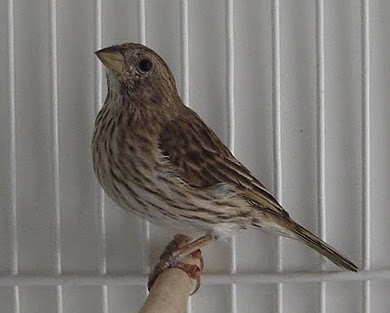 Image